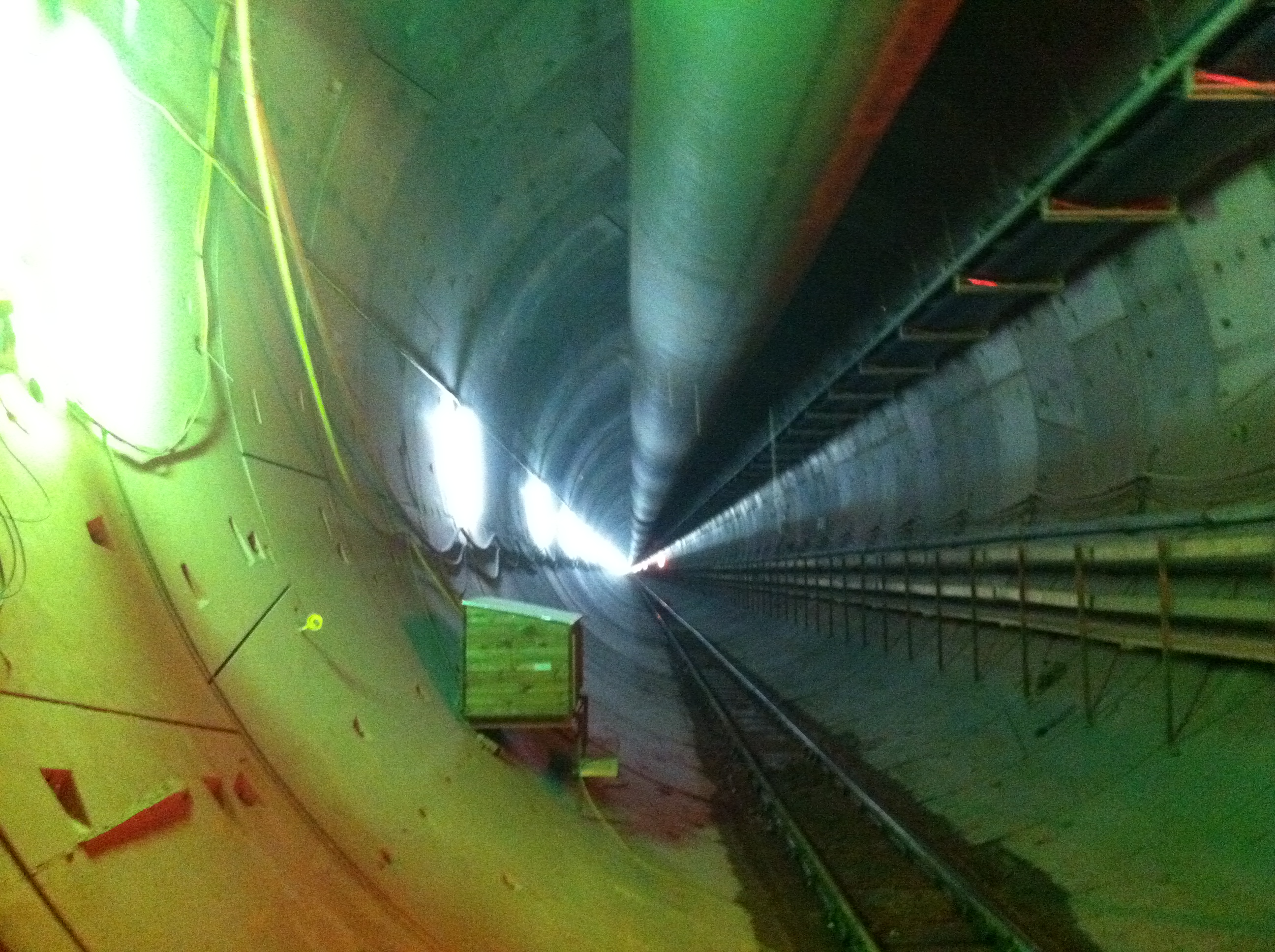 View into the new tube of the Kaiser-Wilhelm-Tunnel at meter 440 in direction to the northern portal.